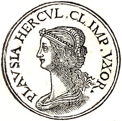 Plautia Urgulanilla (fl. first century) was the first wife of the future Roman Emperor Claudius; actually supposedly very ugly.